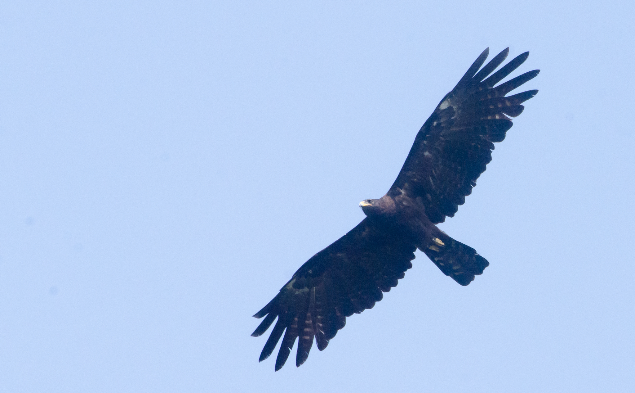 Biodiversity of Nelliyampathy